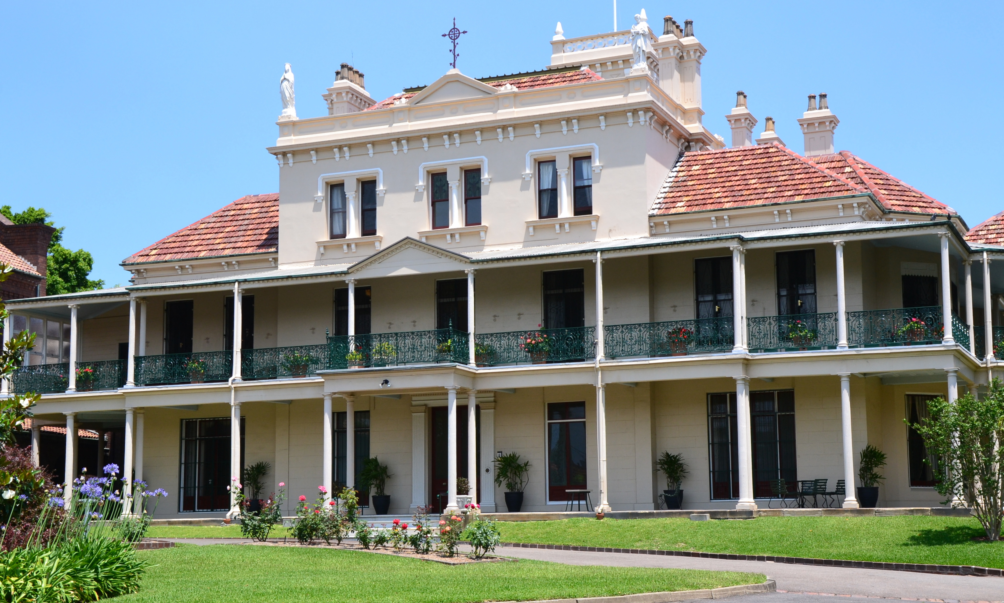 St Scholastica's College (formerly Toxteth Park), Glebe, Sydney